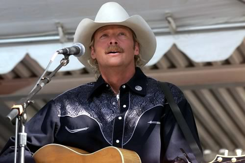 Country music star Alan Jackson performs his song "Where Were You When the World Stopped Turning," at the Pentagon during the Sept. 9 broadcast of ABC's "Good Morning America." Jackson said the song came to him fully formed with music and words when he awoke one morning a few days after the Sept. 11 terrorist attack. Photo by Joe Burlas, September 2002